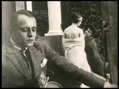 Photo of Murnau´s film "Der Knabe in Blau"